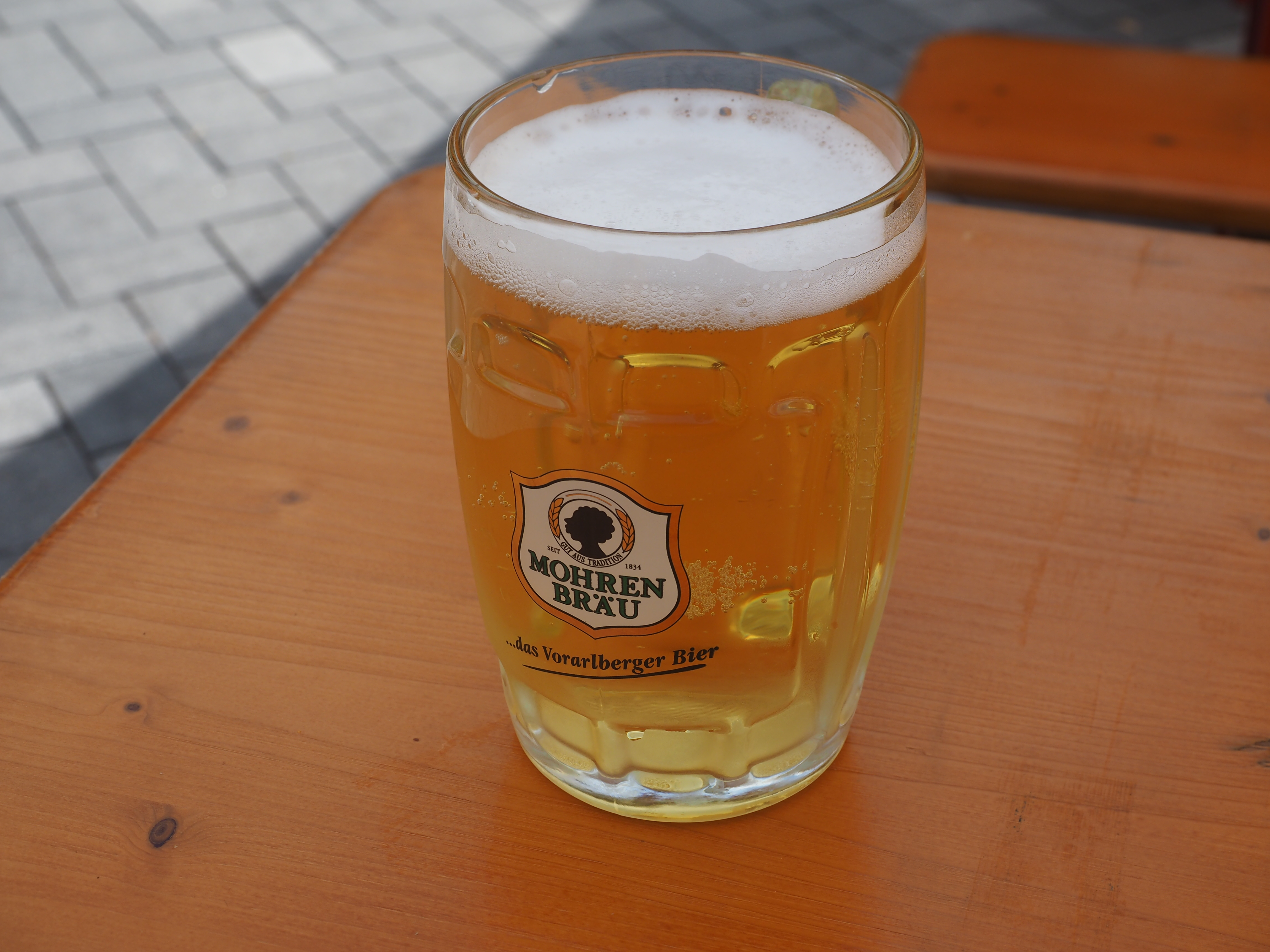 A glass of beer served at a local festival in Hohenems, Vorarlberg, Austria.